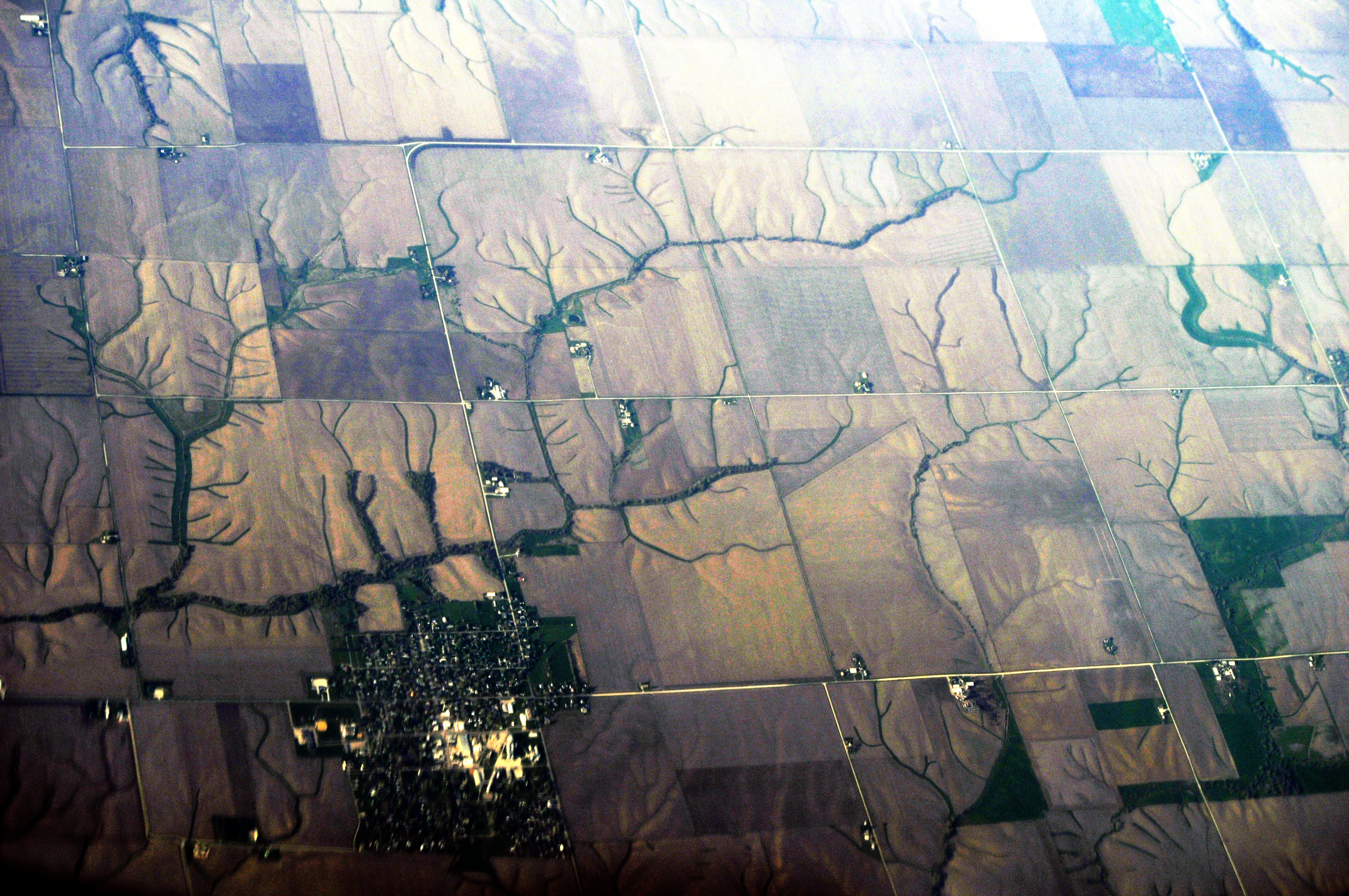 Aerial view of Alexis, Illinois, USA.